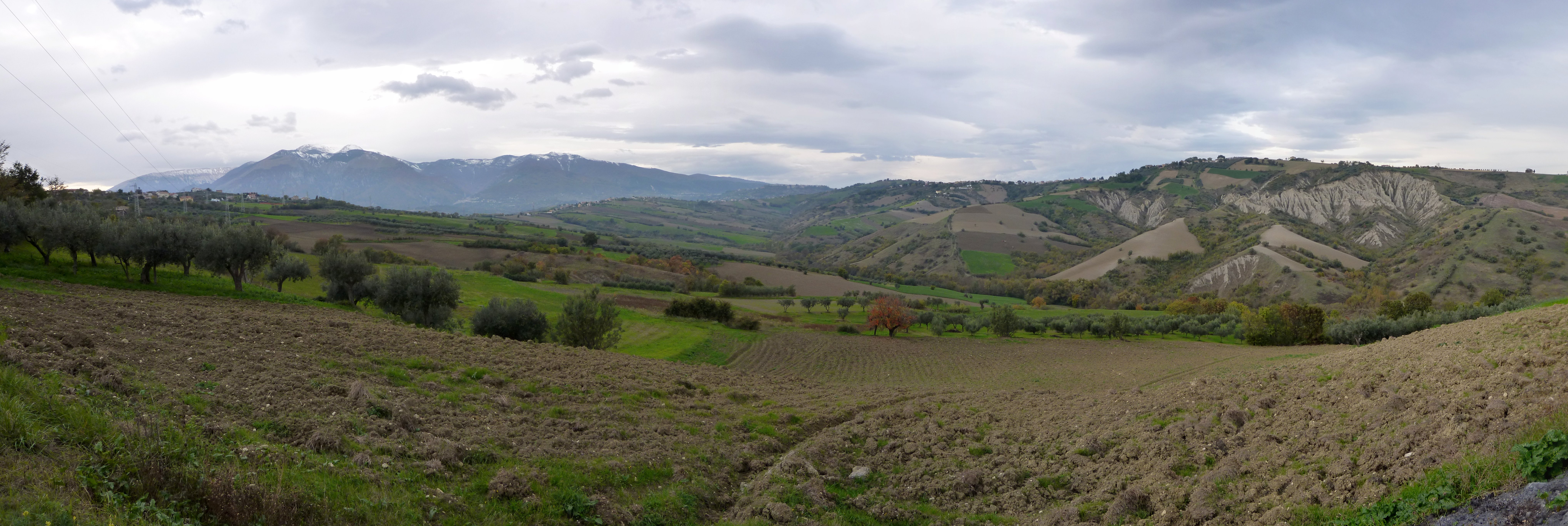 San Biase, Guardiagrele, province of Chieti, Abruzzo